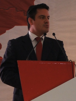 Aristoteles Sandoval, runing for governor of the mexican state of Jalisco.